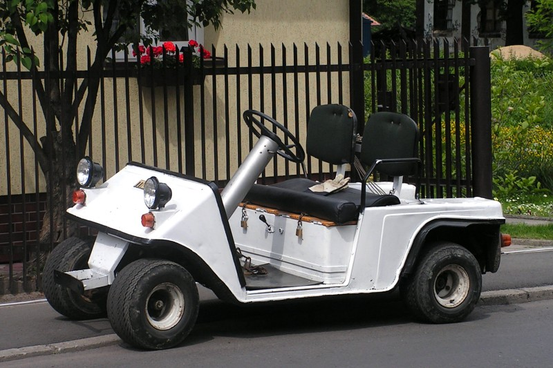 Polish electric vehicle "Melex", type 212.